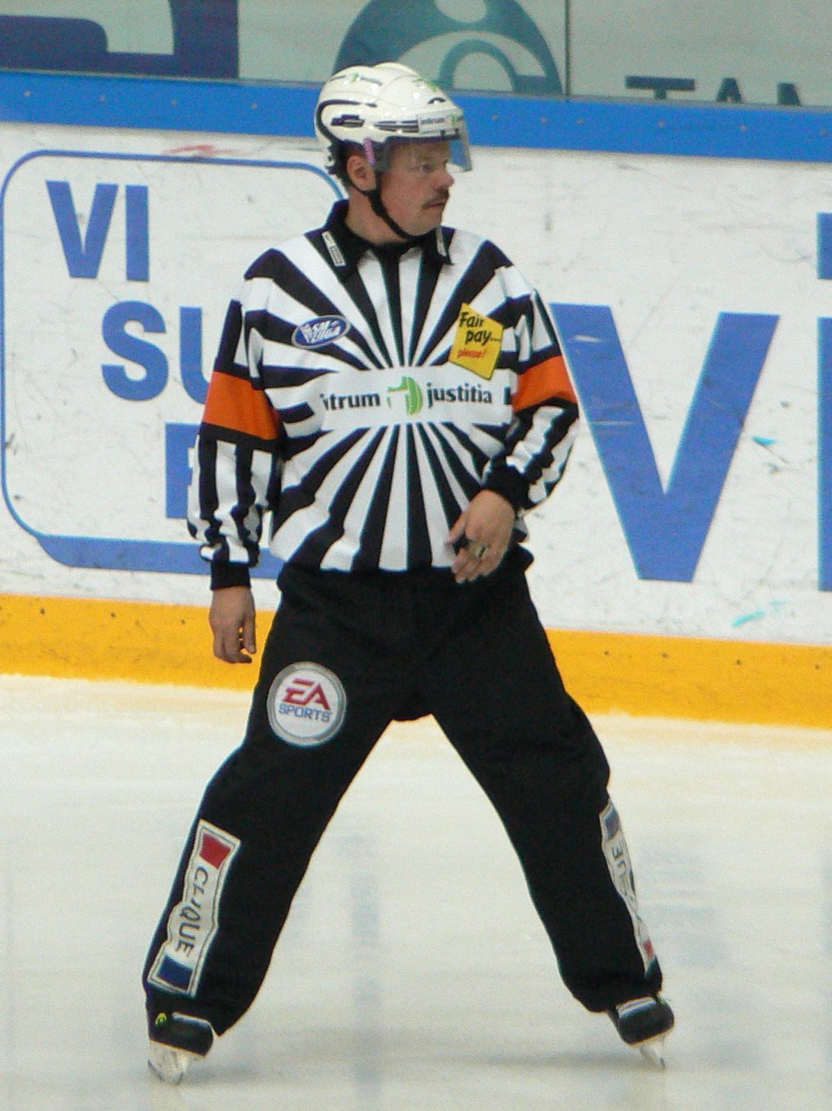 Finnish ice hockey referee Reijo Ringbom in September 2008.